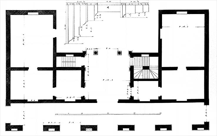 Palazzo Civena in Vicenza, by Andrea Palladio. Drawing by Ottavio Bertotti Scamozzi, 1776.